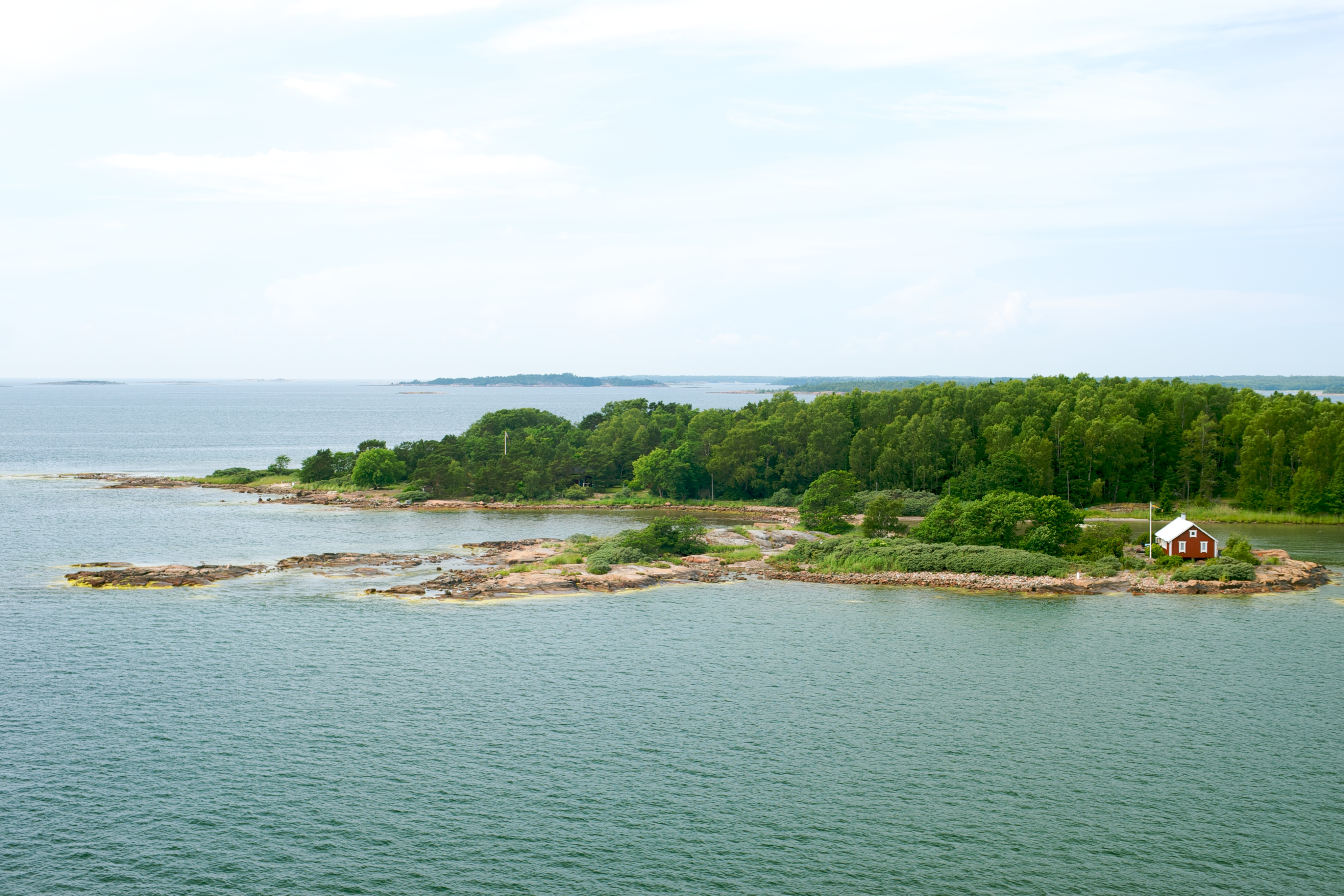 A small wooden house in the middle of the Turku Archipelago